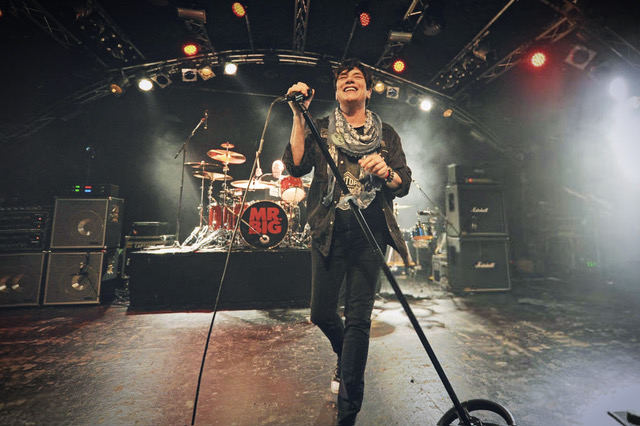 Eric Martin live 2017